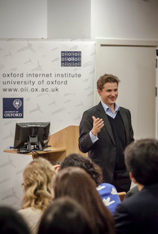 Alec Ross Teaching at Oxford